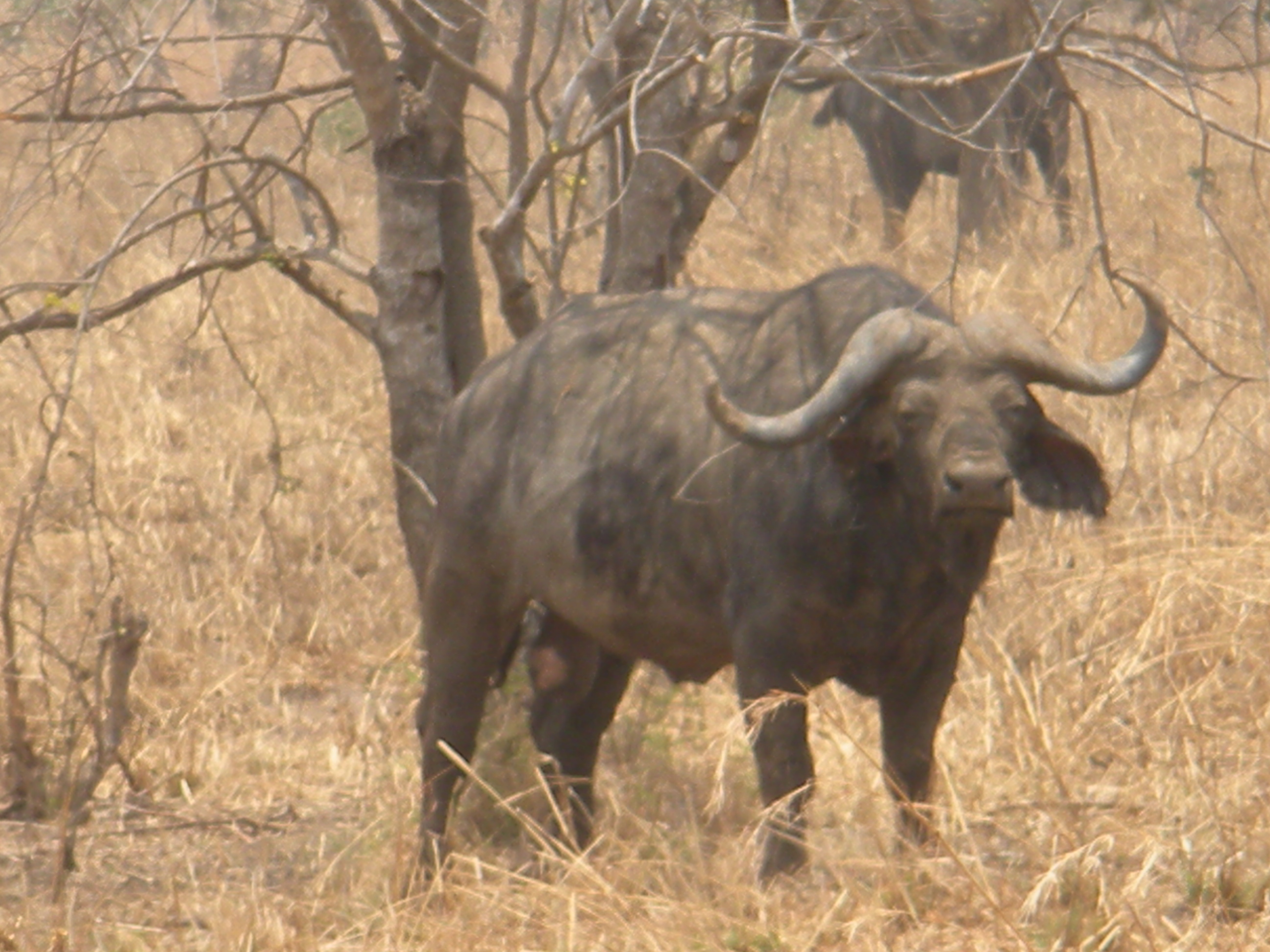 A buffalo in Mikumi National Park, Tanzania